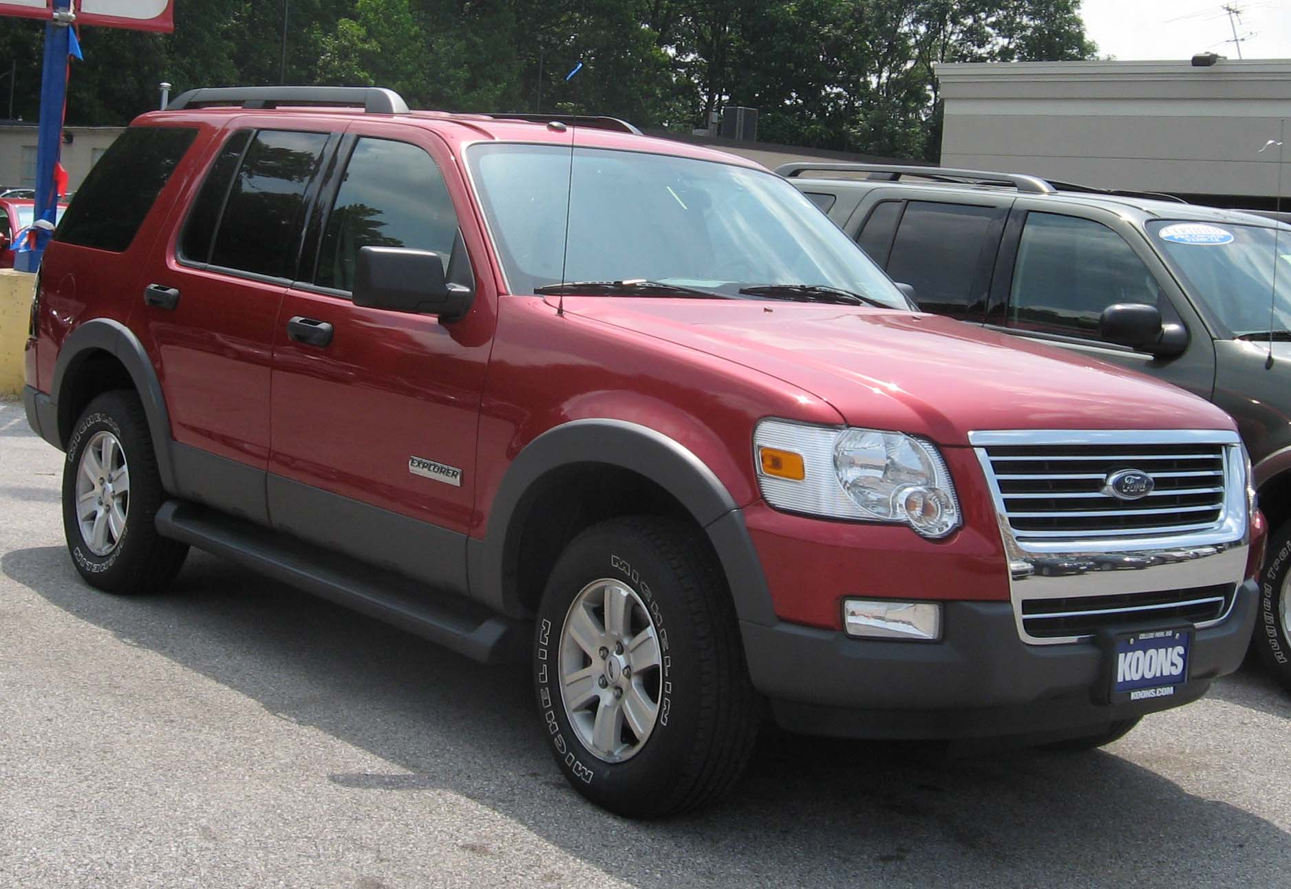 2006-2007 Ford Explorer photographed in USA.